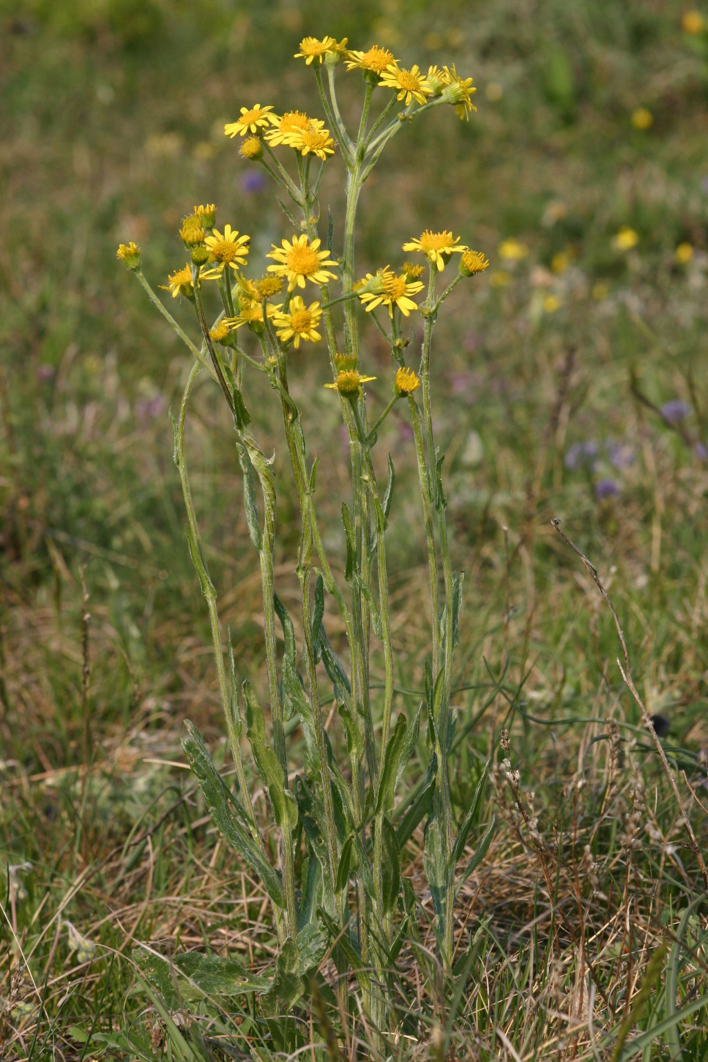 Tephroseris integrifolia